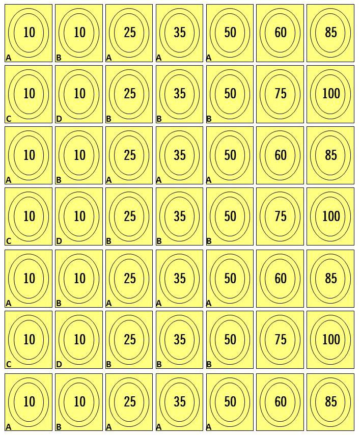 Mexico - porte de mar - 1875 - A Schema of Sheet of Issue 1